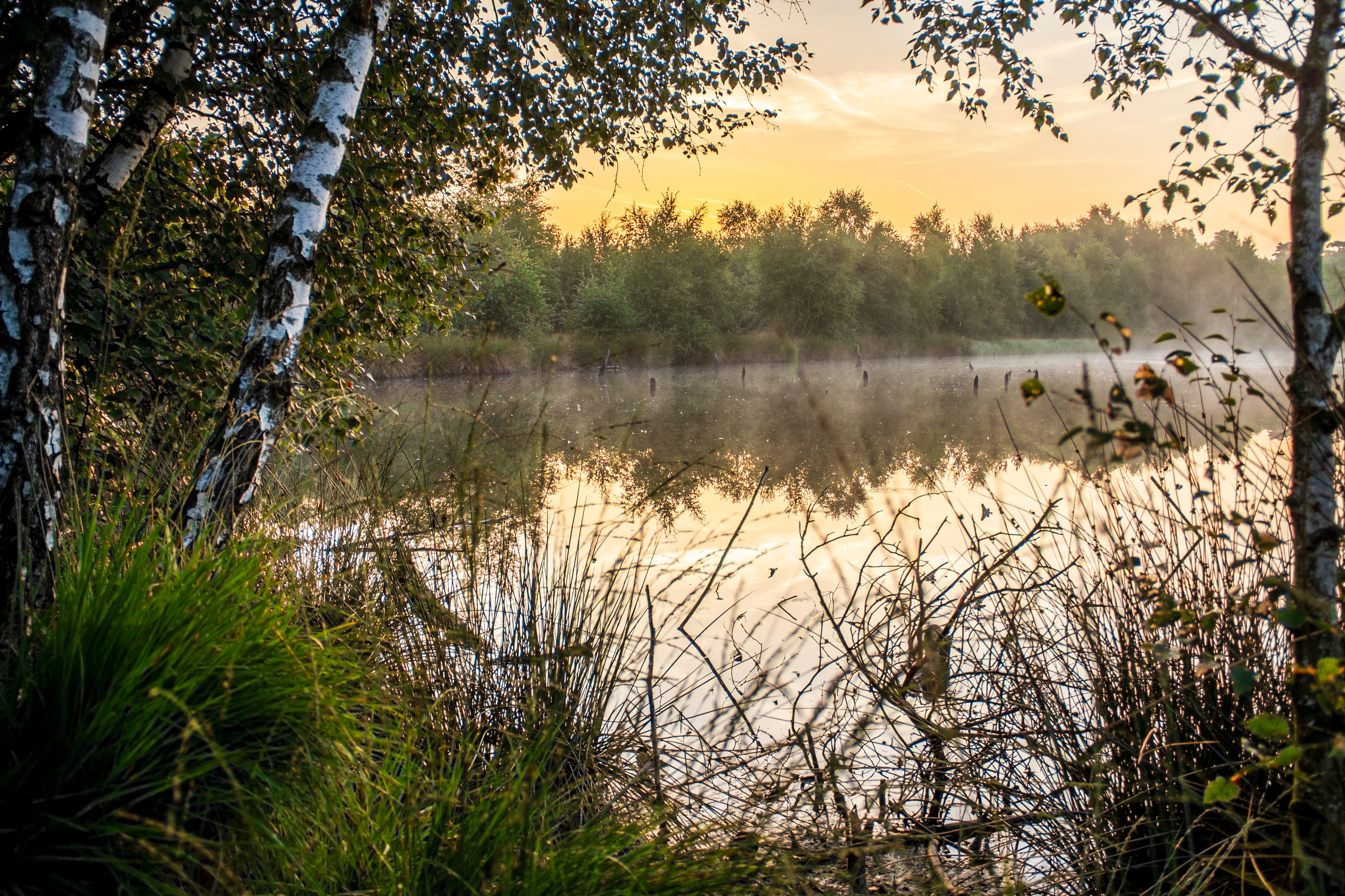 Nature reserve “Venner Moor” near Senden, Noth Rhine-Westphalia, Germany